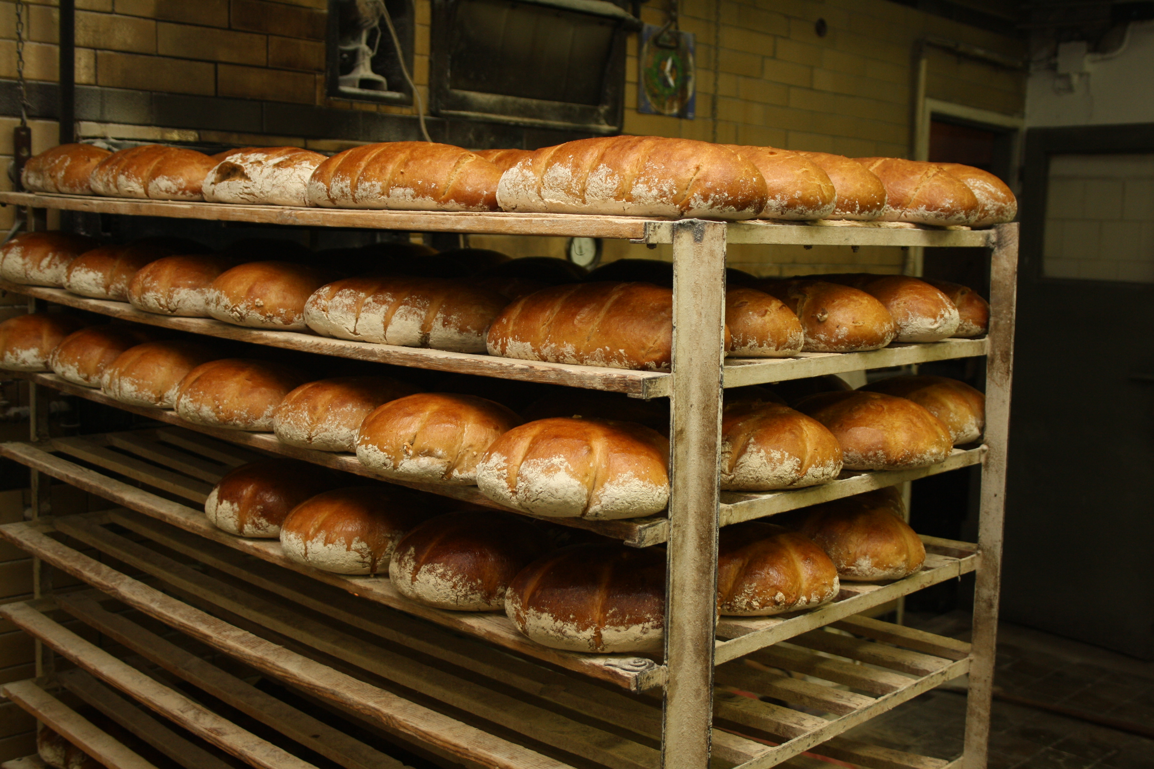 Production process of bread, Czech Republic This photograph was taken with a DSLR from WMCZ's Camera grant. This picture was taken and/or got within the scope of the 'Acquiring scientific and specialized pictures' grant.